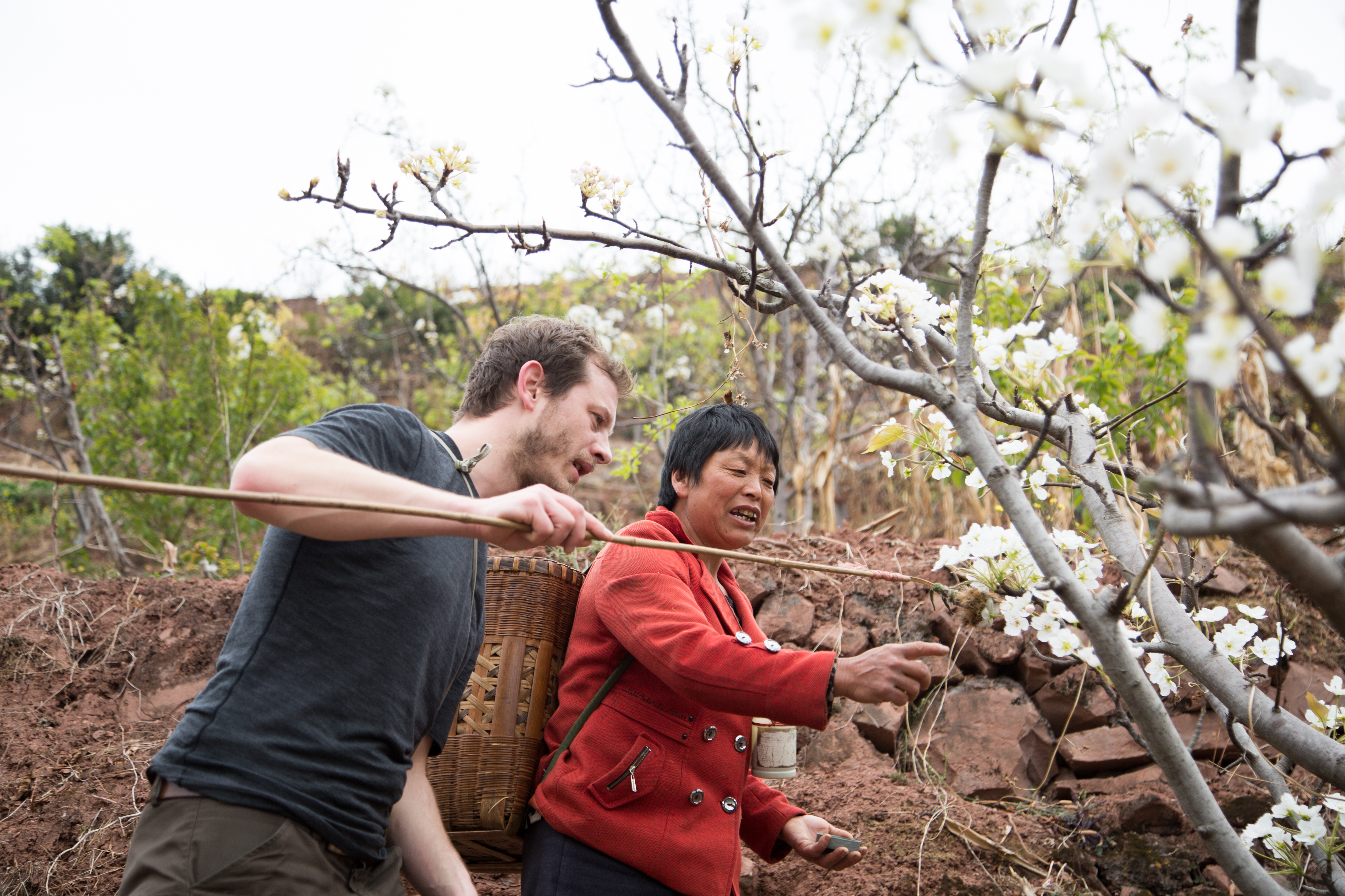 The artist Maximilian Prüfer pollinating a fruit tree on an orchard in Sichuan, China.